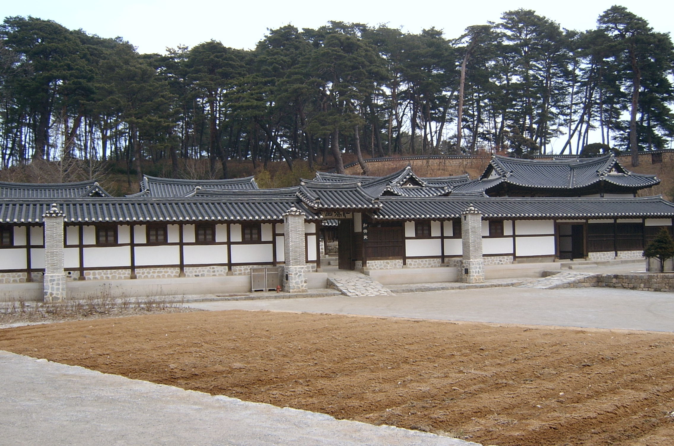 The picture was taken by Klaus314. Seongyojang, a country house of a prominent yangban family of Gangneung. Built in 19th century.